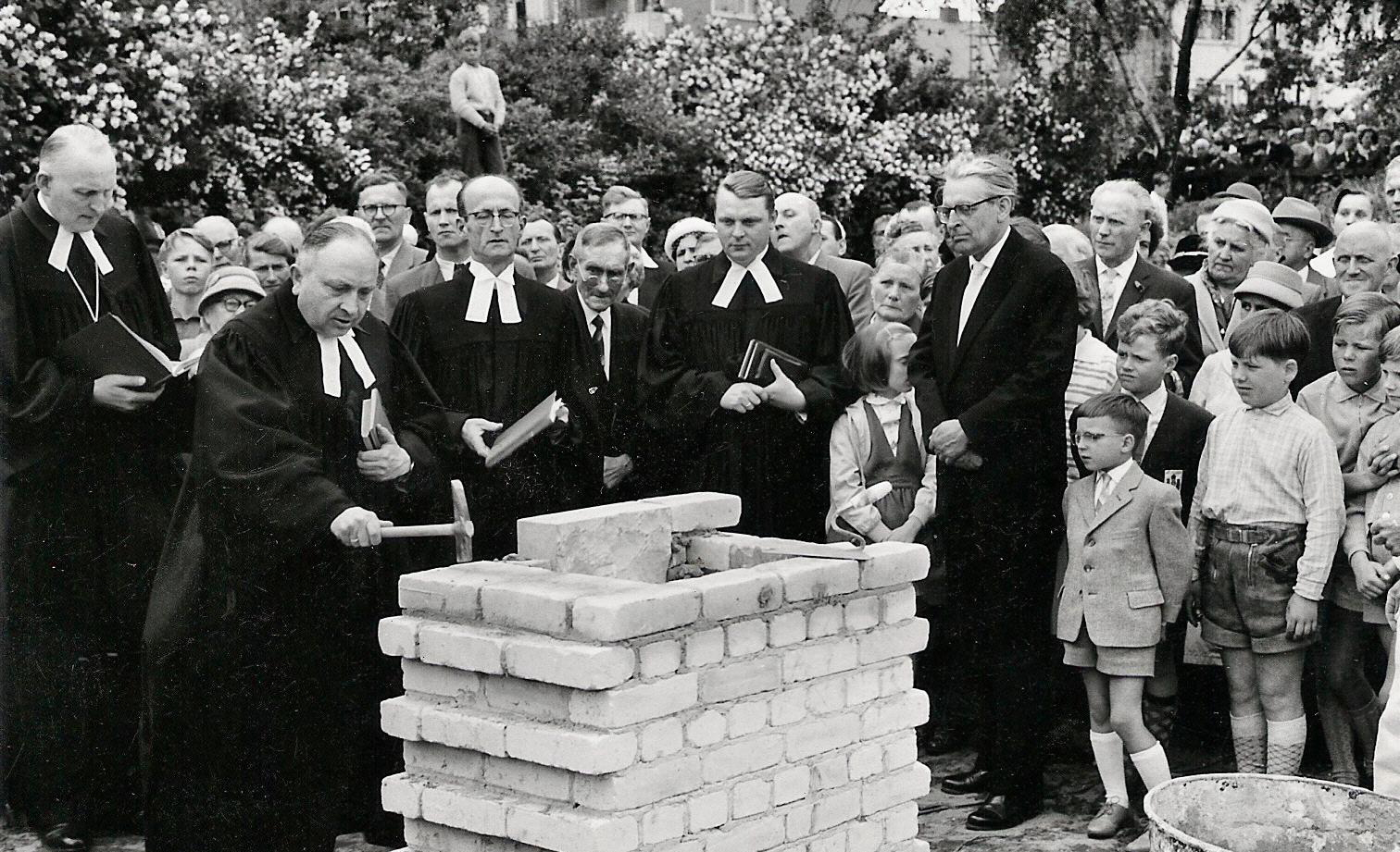 Laying the foundation stone for the construction of the Corvinuskirche in Hanover, Herrenhausen, Germany. From left: Superintendent Kluegel, Superintendent Albert Vieth, pastor Georg Jacobi, pastor Dr. Werner Merten, architect Roderich Schröder.